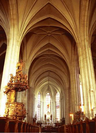 Saint Michael Church in Cluj-Napoca, Romania